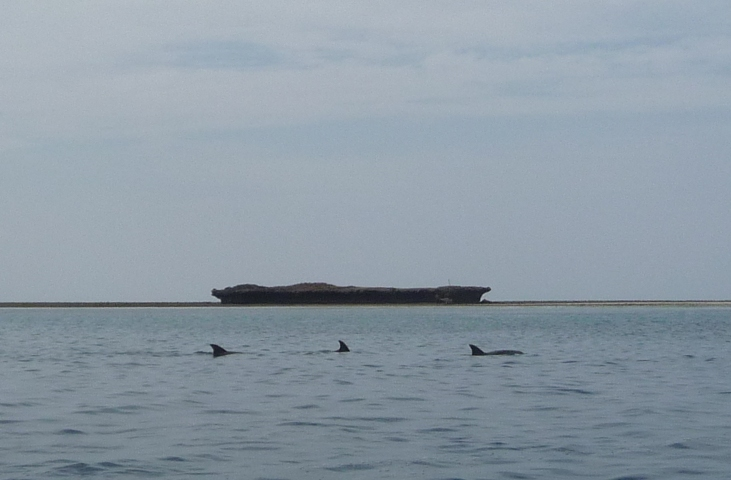 Dolphins in front of Kisite Island (Kenya)